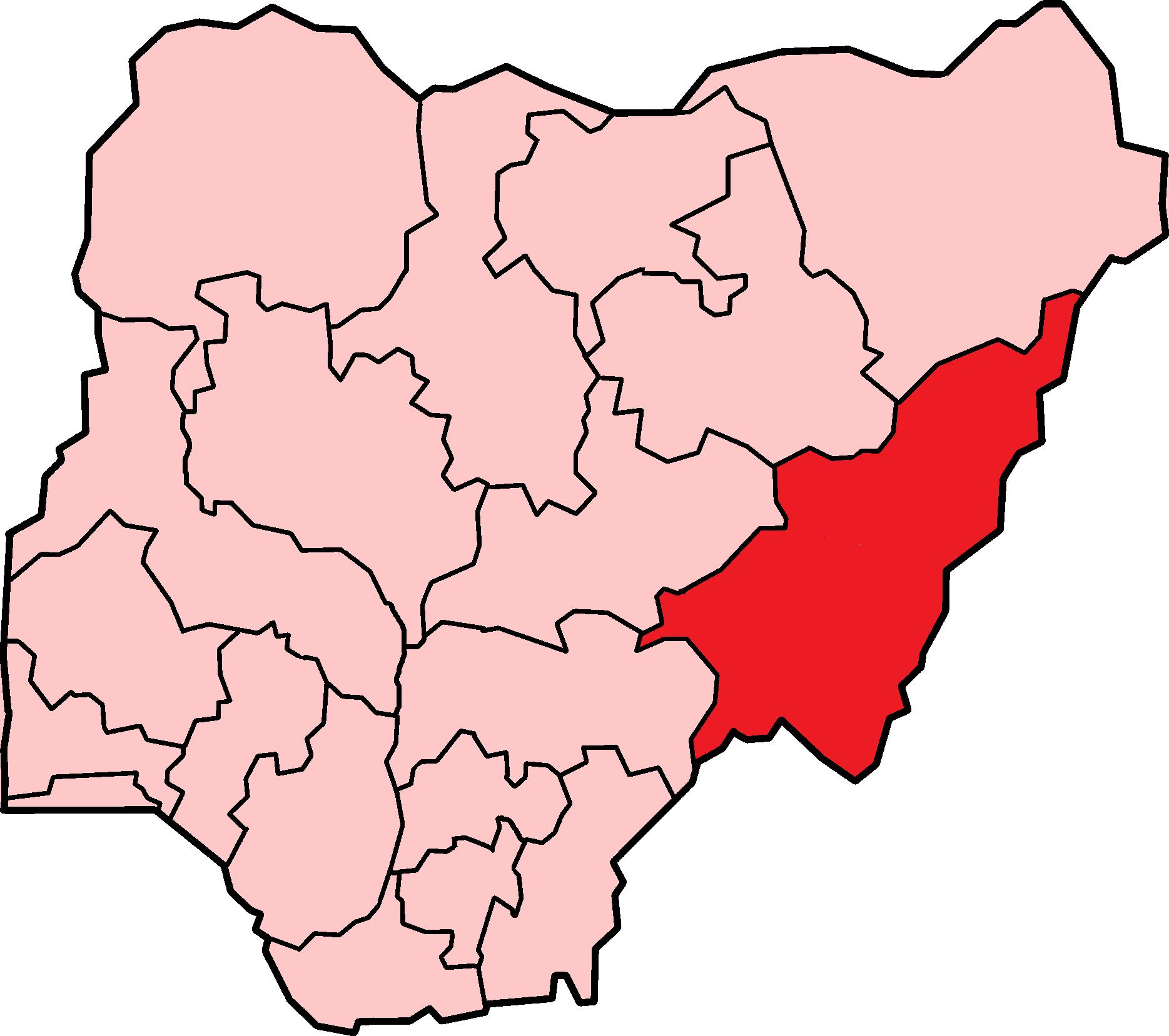 Map of the former Gongola State in Nigeria. Based on Nigerian states, 1976 - 1987, from data from United States Geological Survey, Africa Data Dissemination Service.